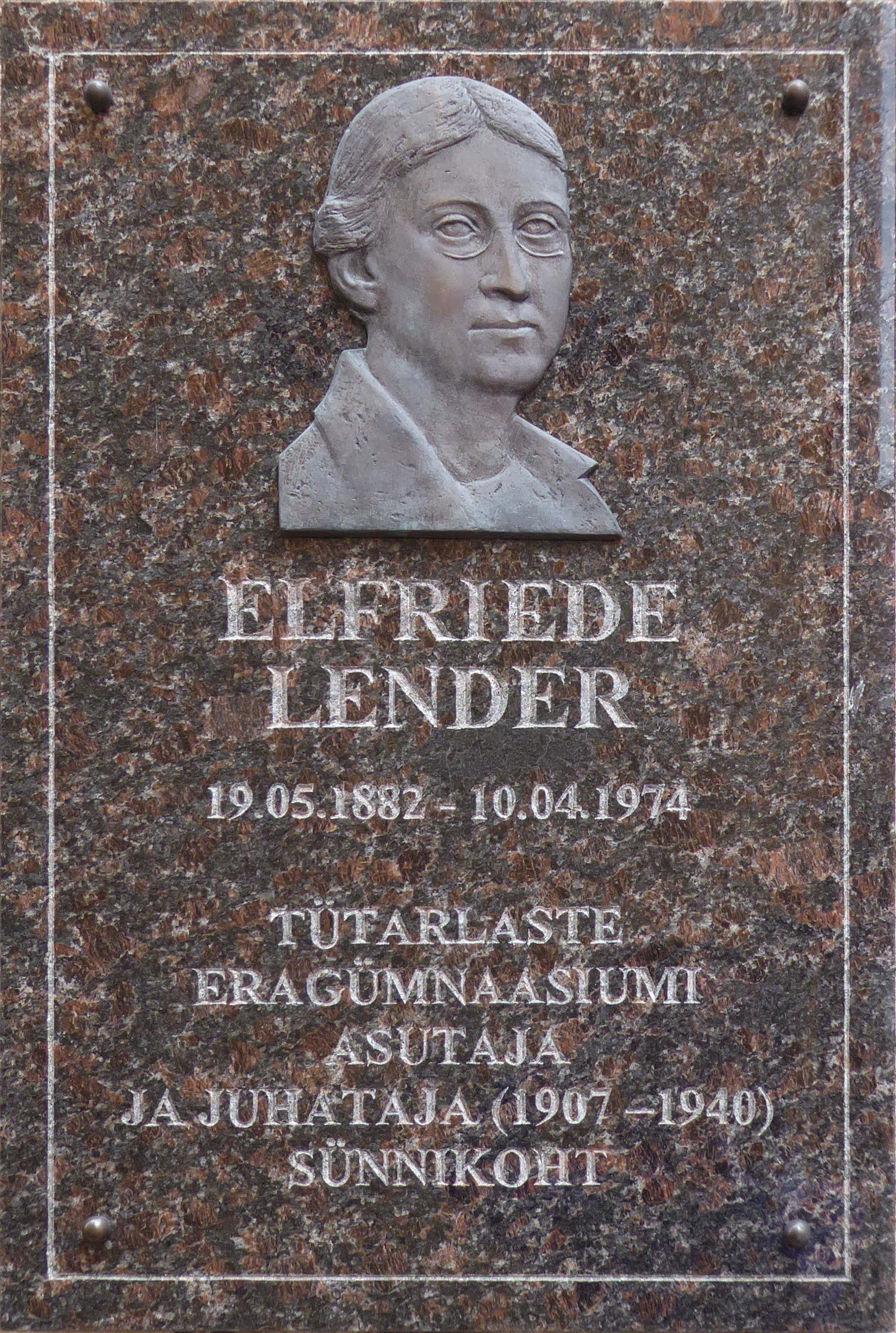 Memorial plaque at Elfriede Lender's birthplace in Toom-Rüütli 12, Tallinn (Estonia)